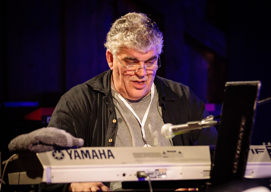 Haakon Graf with Haakon Graf Trio at the stage of Christians Kjeller. The concert was part of Kongsberg Jazzfestival and took place on 07. July 2017. Lineup: Haakon Graf (keyboard) Erik Smith (drums) Per Mathisen (bass guitar)